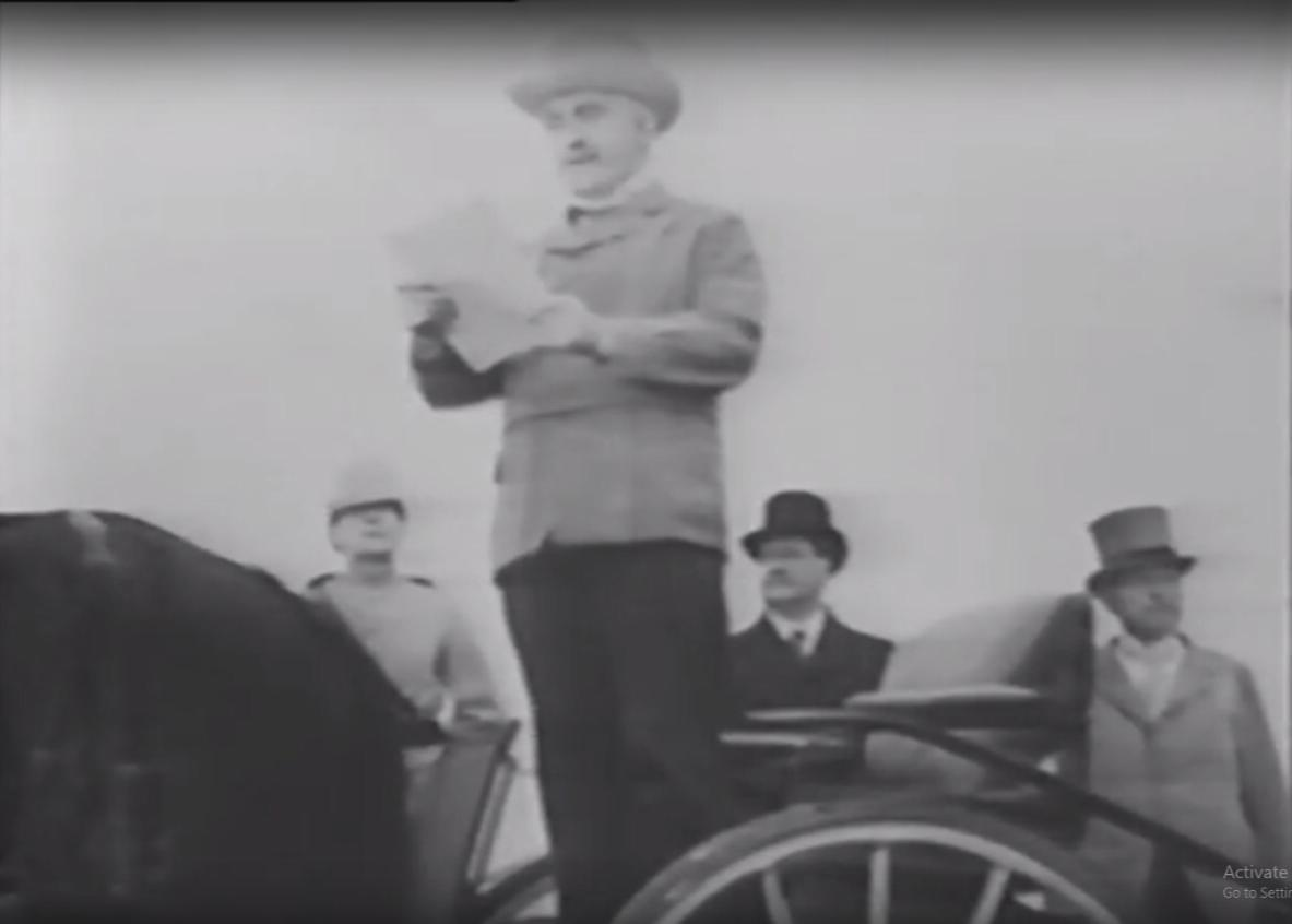 Rhodes of Africa 1936-man reading a speech